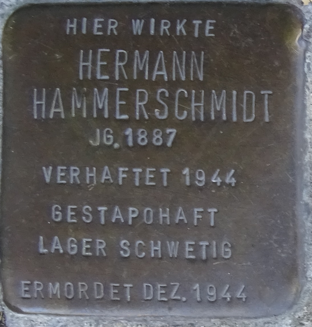 Stolperstein of Hermann Hammerschmidt in Cottbus, Bahnhofstraße 62